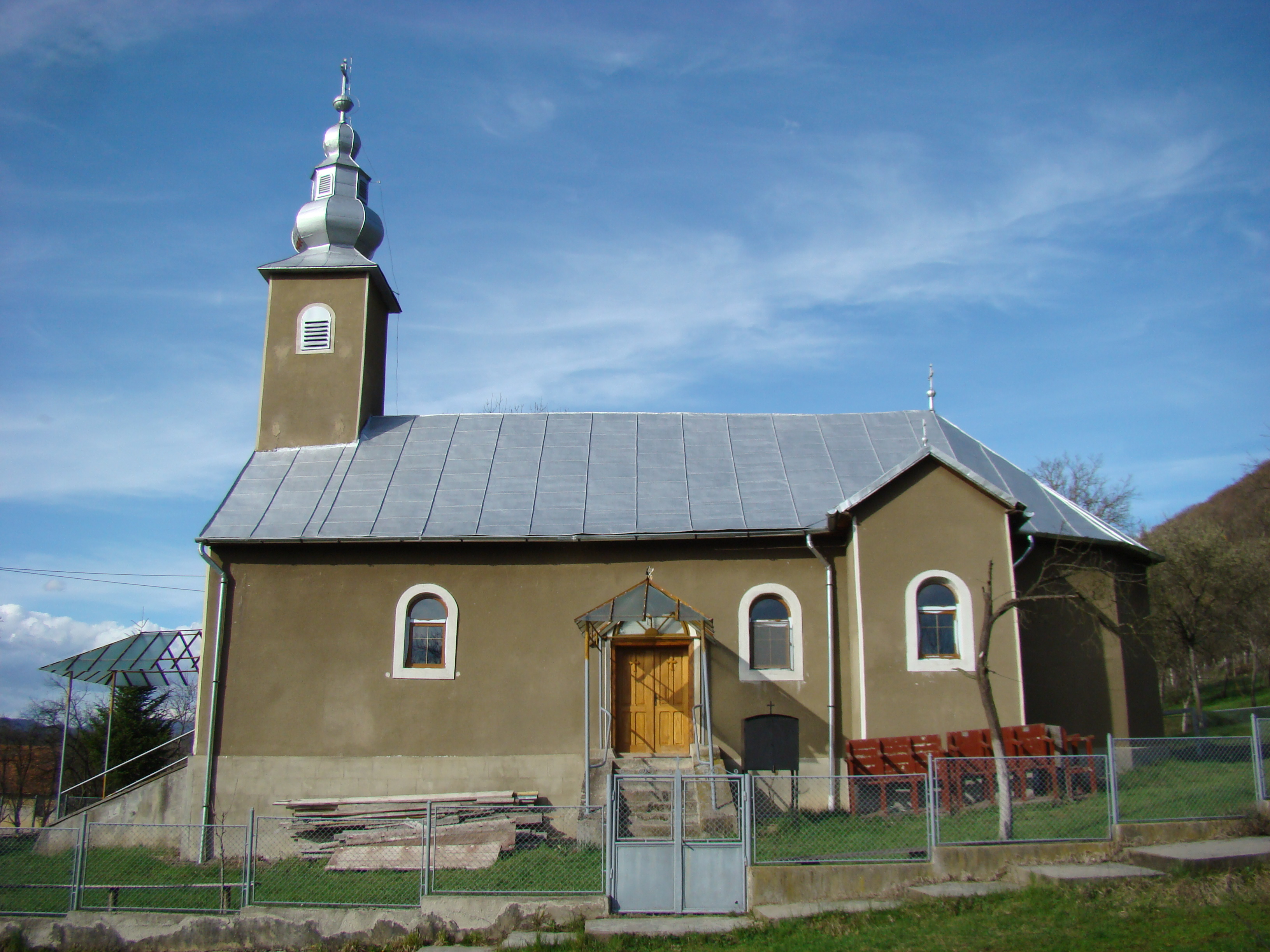 Wooden church in Iosășel, Arad county, Romania